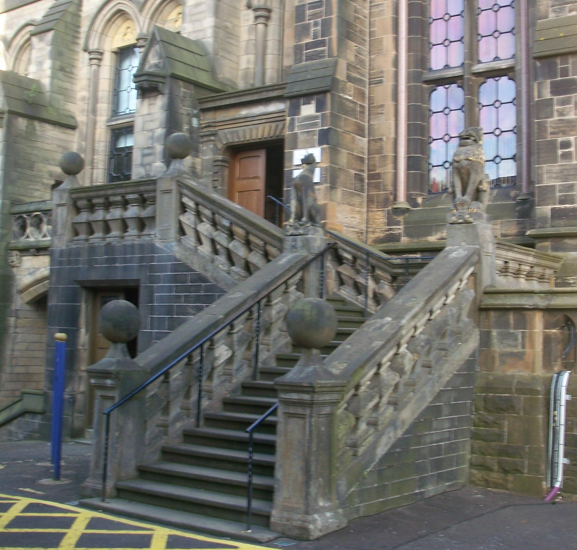 Lion and Unicorn Staircase at the University of Glasgow